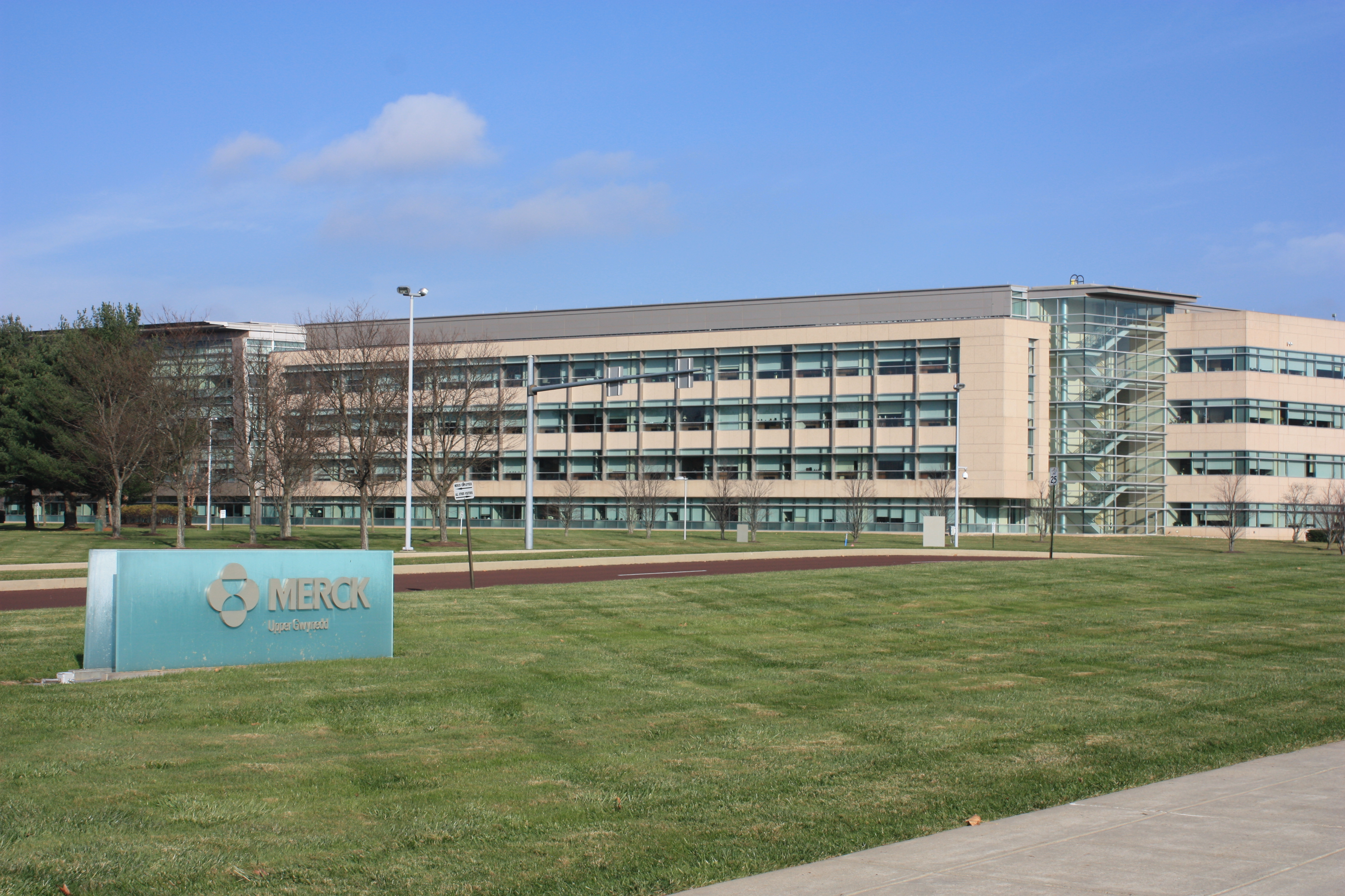 The offices of Merck, located in Upper Gwynedd Township, Montgomery County, Pennsylvania.